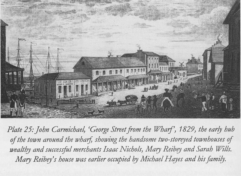 View of George St from the Wharf, Sydney, 1829, showing town houses of prosperous merchants Isaac Nichols, Mary Reibey and Sarah Wills.